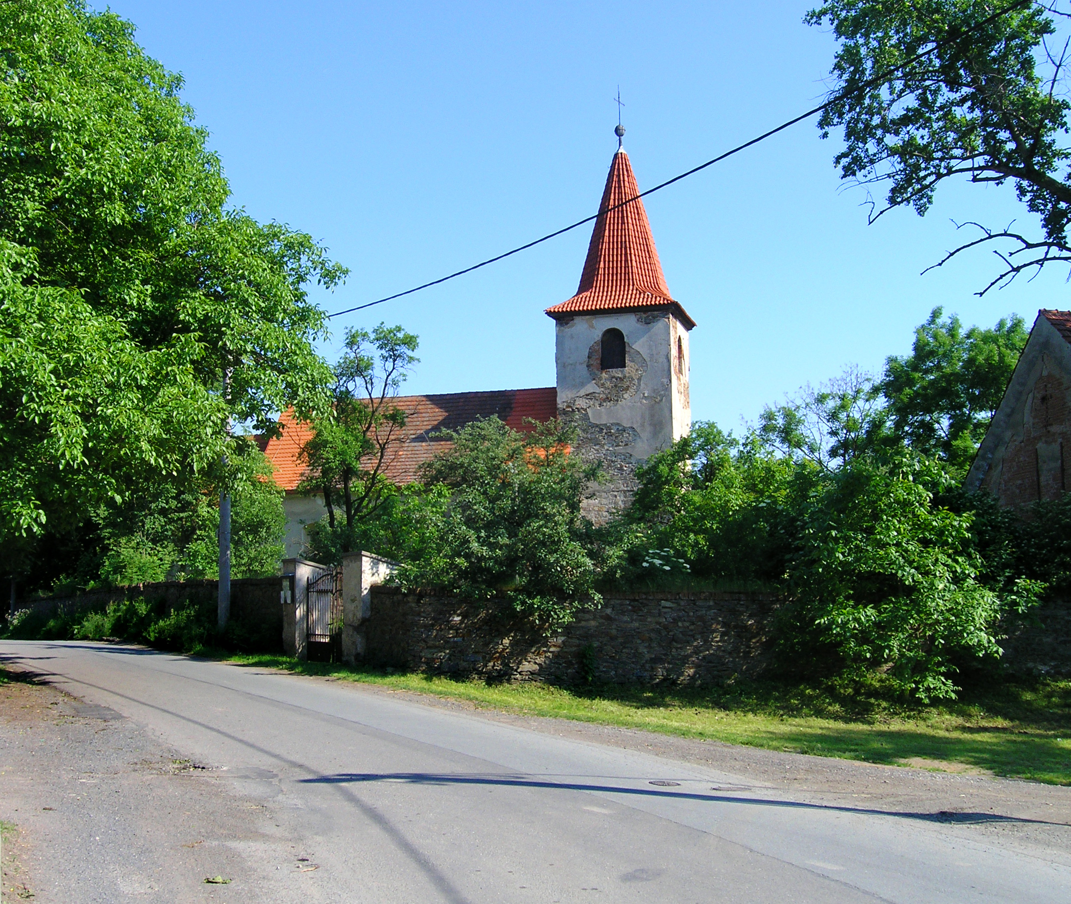 Church of Nativity of the Virgin Mary in Olešky, local part of Radějovice, Prague-East District Czech Republic